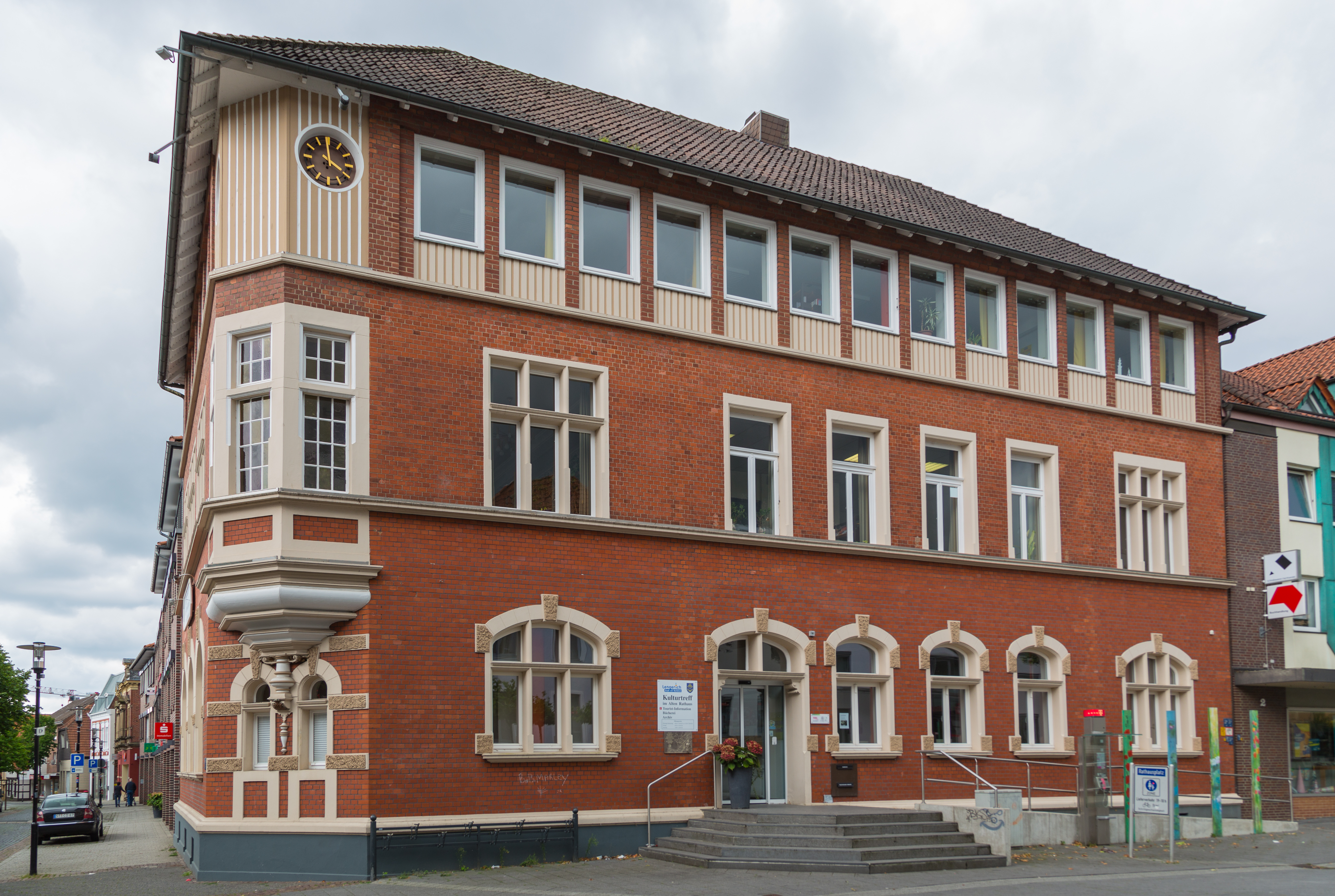 Former town hall (Altes Rathaus), 1 Town Hall Square (Rathausplatz 1) in Lengerich, Kreis Steinfurt, North Rhine-Westphalia, Germany.